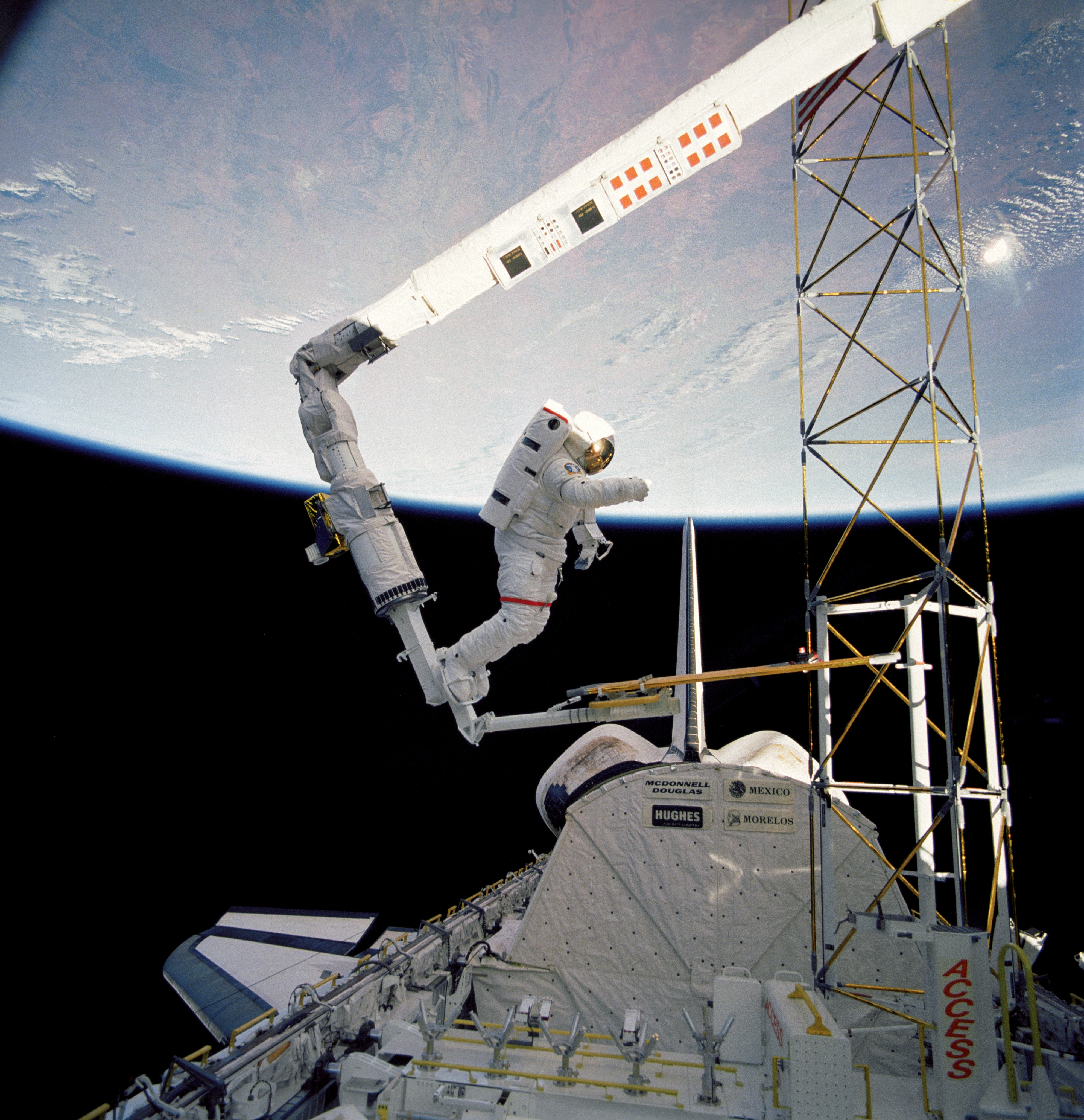 Astronaut Jerry L. Ross, anchored to the foot restraint on the Remote Manipulator System (RMS), approaches the tower-like Assembly Concept for Construction of Erectable Space Structures (ACCESS) device. The structure was just deployed by Ross and astronaut Sherwood Spring as the Atlantis flies over white clouds and blue ocean waters of the Atlantic.